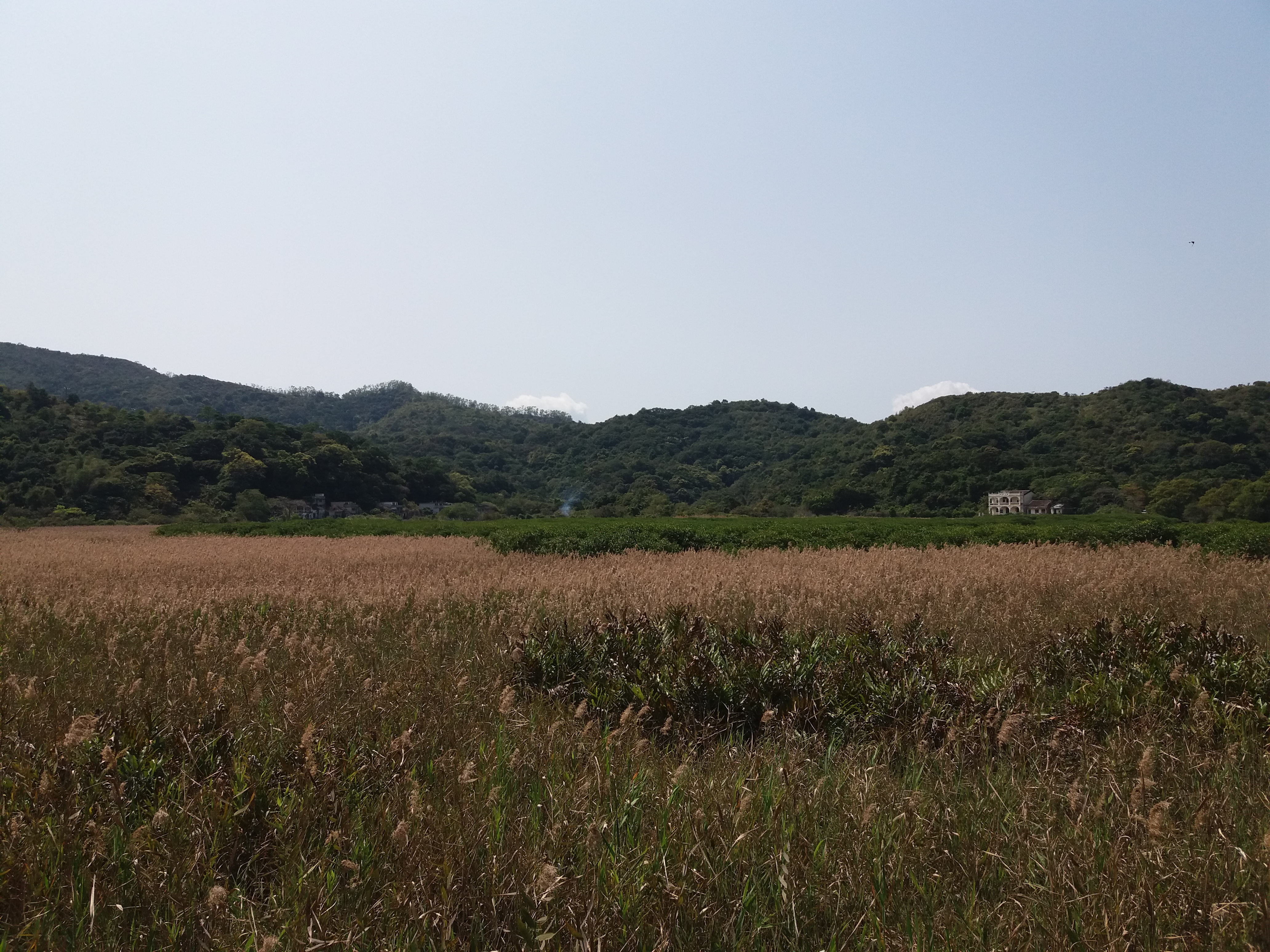 The Golden Reed Field of Kukpo